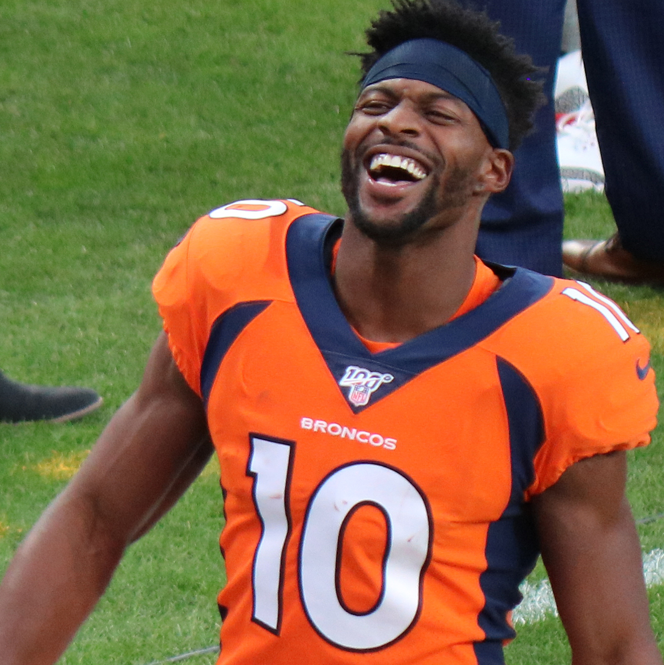 Emmanuel Sanders, a National Football League player.